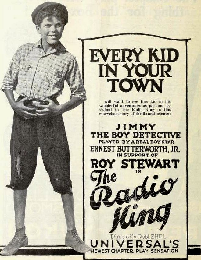 Ad for the American film The Radio King with English-born American child actor Ernest Butterworth, Jr. (1905 – 1986), on page 34 of the September 9, 1922 Universal Weekly.